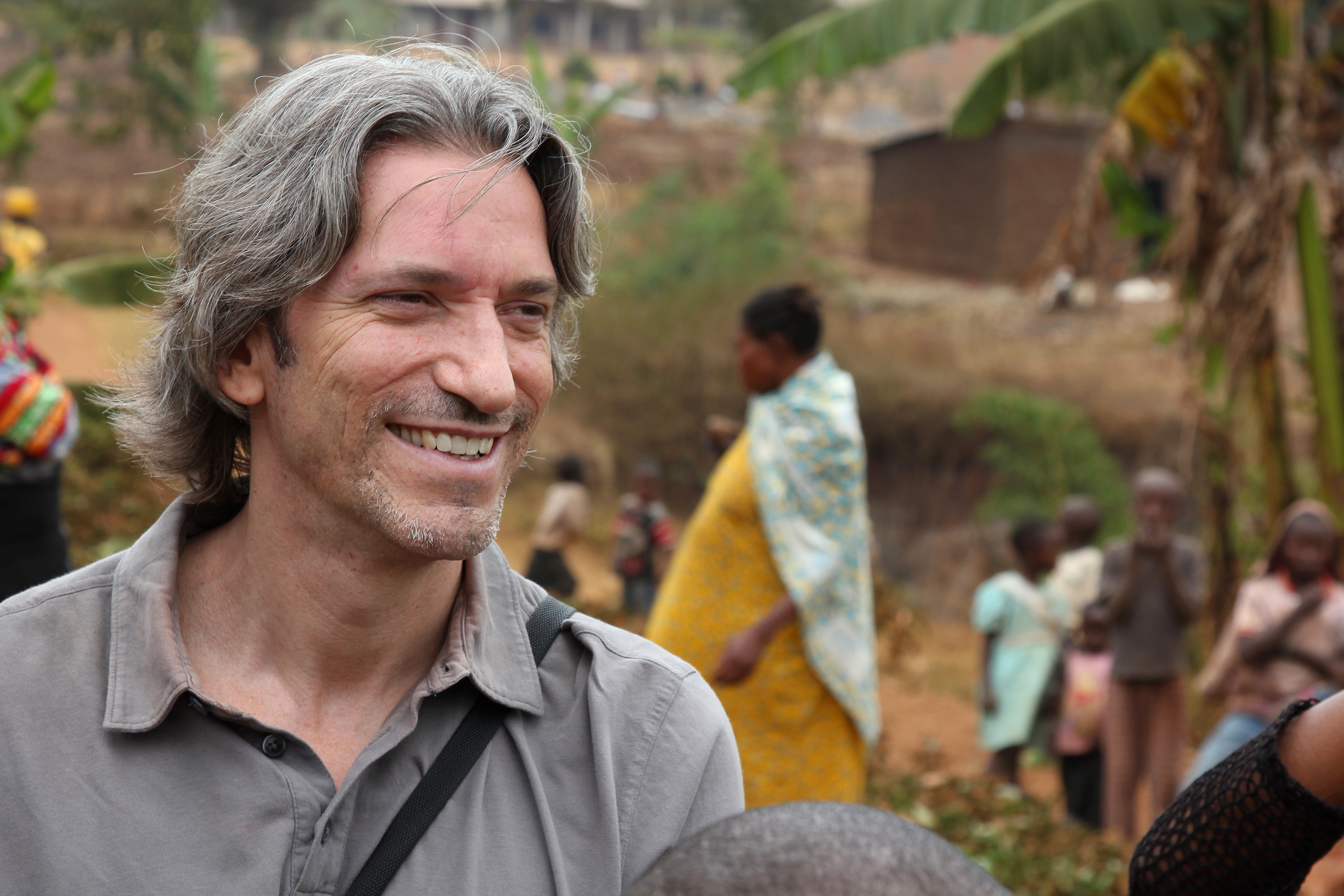 Photo of John Prendergast in Congo 2010.